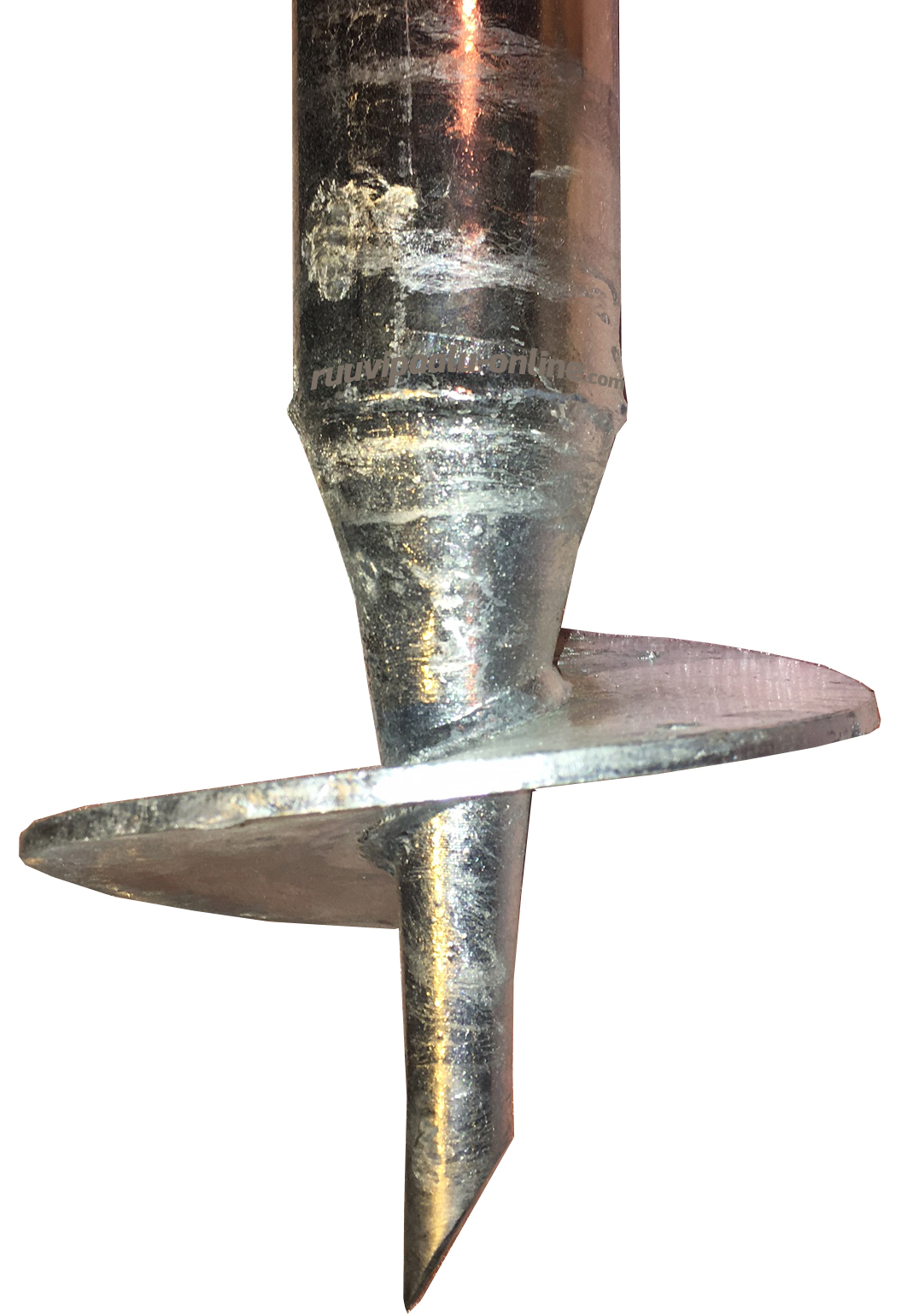 Hand-wound screw-pile tip with a beveled spike.